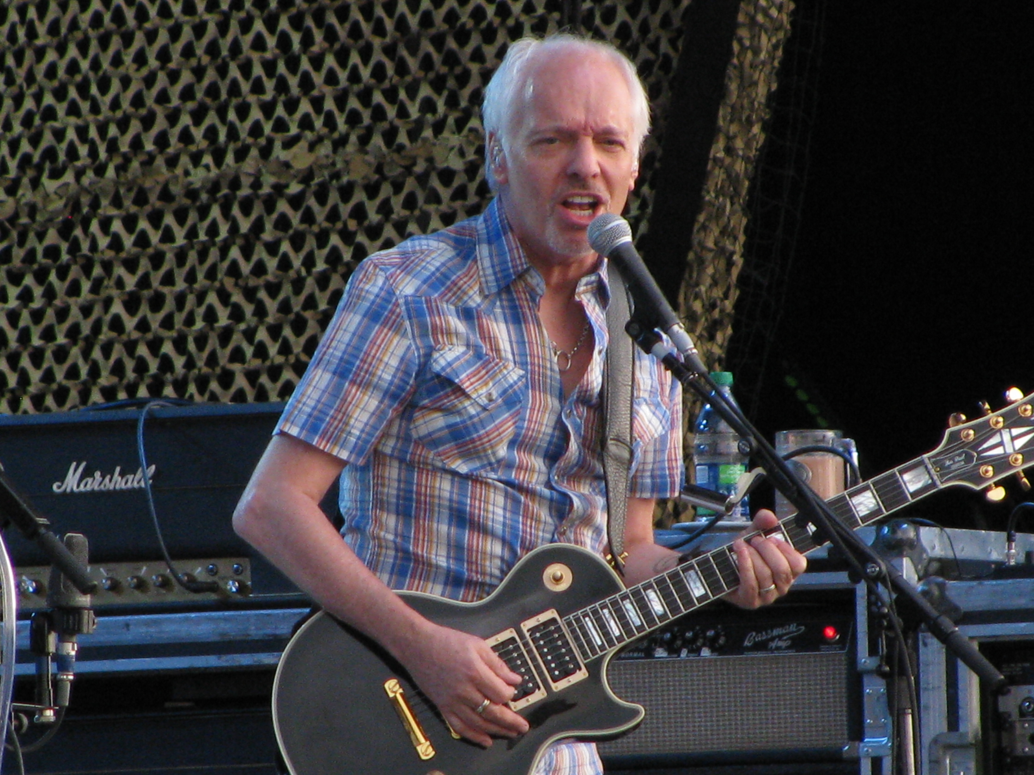 Peter Frampton at the 2011 Ottawa Bluesfest.